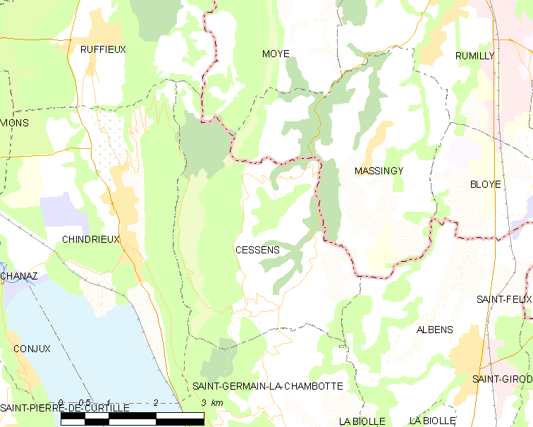 Map of French municipality